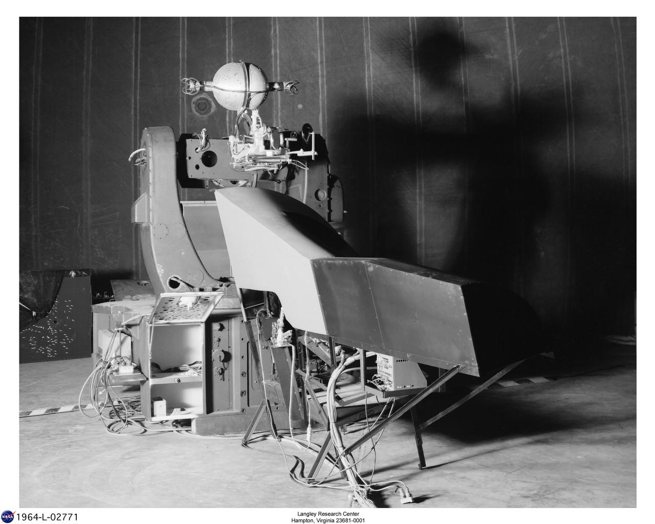 The specially designed star projector used in the Projection Planetarium. From A.W. Vogeley, "Piloted Space-Flight Simulation at Langley Research Center," Paper presented at the American Society of Mechanical Engineers, 1966 Winter Meeting, New York, NY, November 27 - December 1, 1966. "Another approach to the scene-generation problem is the point-light-source projection technique. This technique has been used in the Langley Projection Planetarium,... to study Apollo launch-abort problems. This method was very effective in providing the required horizon-to-horizon view of Florida as seen from about 100,000 feet." "This projector operates on a concept developed by Spitz. It consists of a point-light source reflecting off a centrally located highly reflective sphere which directs the light outward through the many holes representing the stars. The size of the holes is varied to vary star magnitude. The star images are brought into focus on the inside of the planetarium by lenses glued to the surface of the projector and the diameter of the projection sphere govern the focal length required for these lenses. Although this type of projector does not have the precision required for the study of navigation problems it is very adequate for pilot control problems such as rendezvous where the star field is primarily used as an attitude reference.